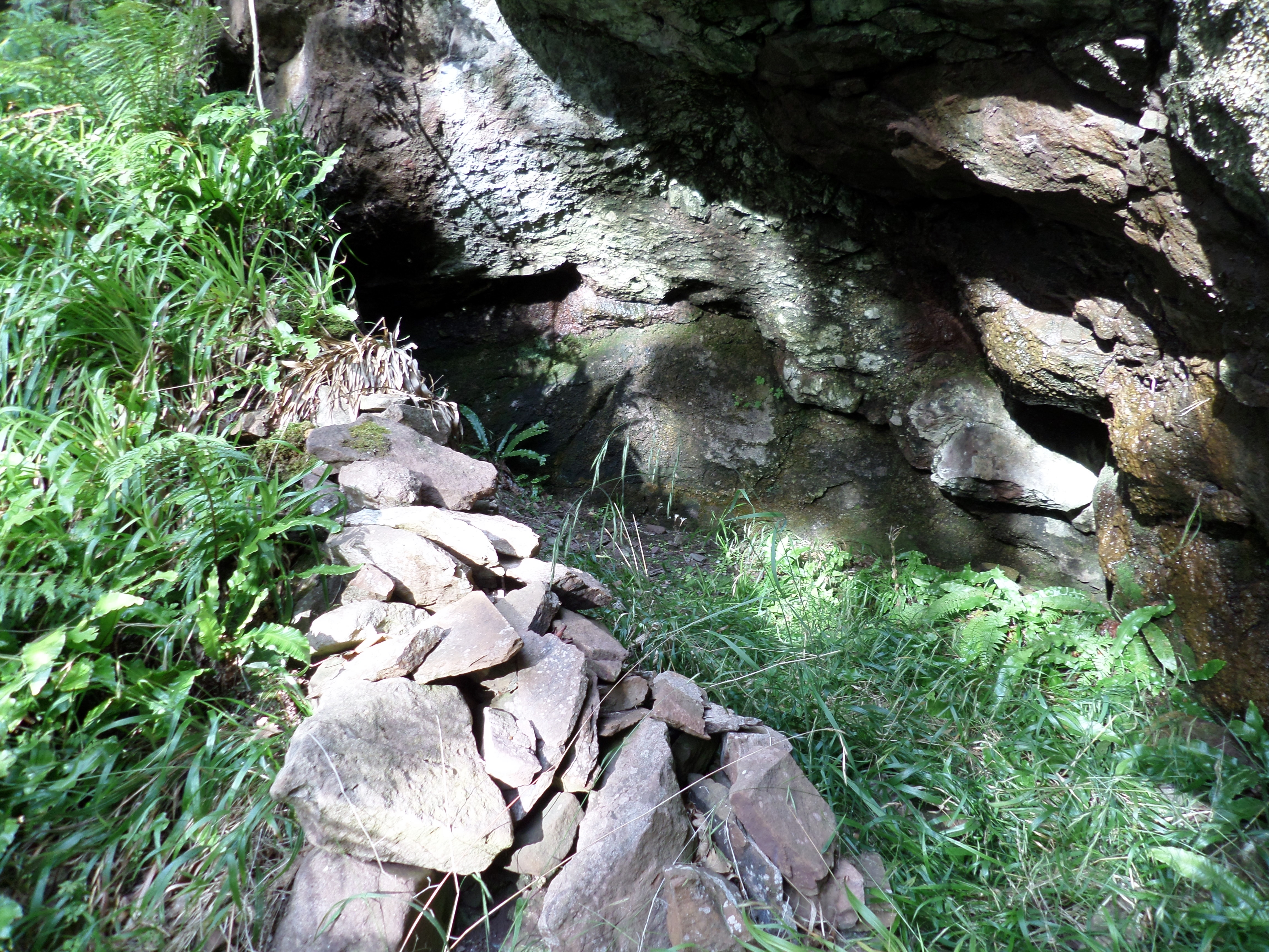 Smith's Cave walling detail, Hawking Craig Wood, Hunterston, North Ayrshire, Scotland.